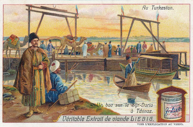 Мясной экстракт Либиха В Туркестане 1907